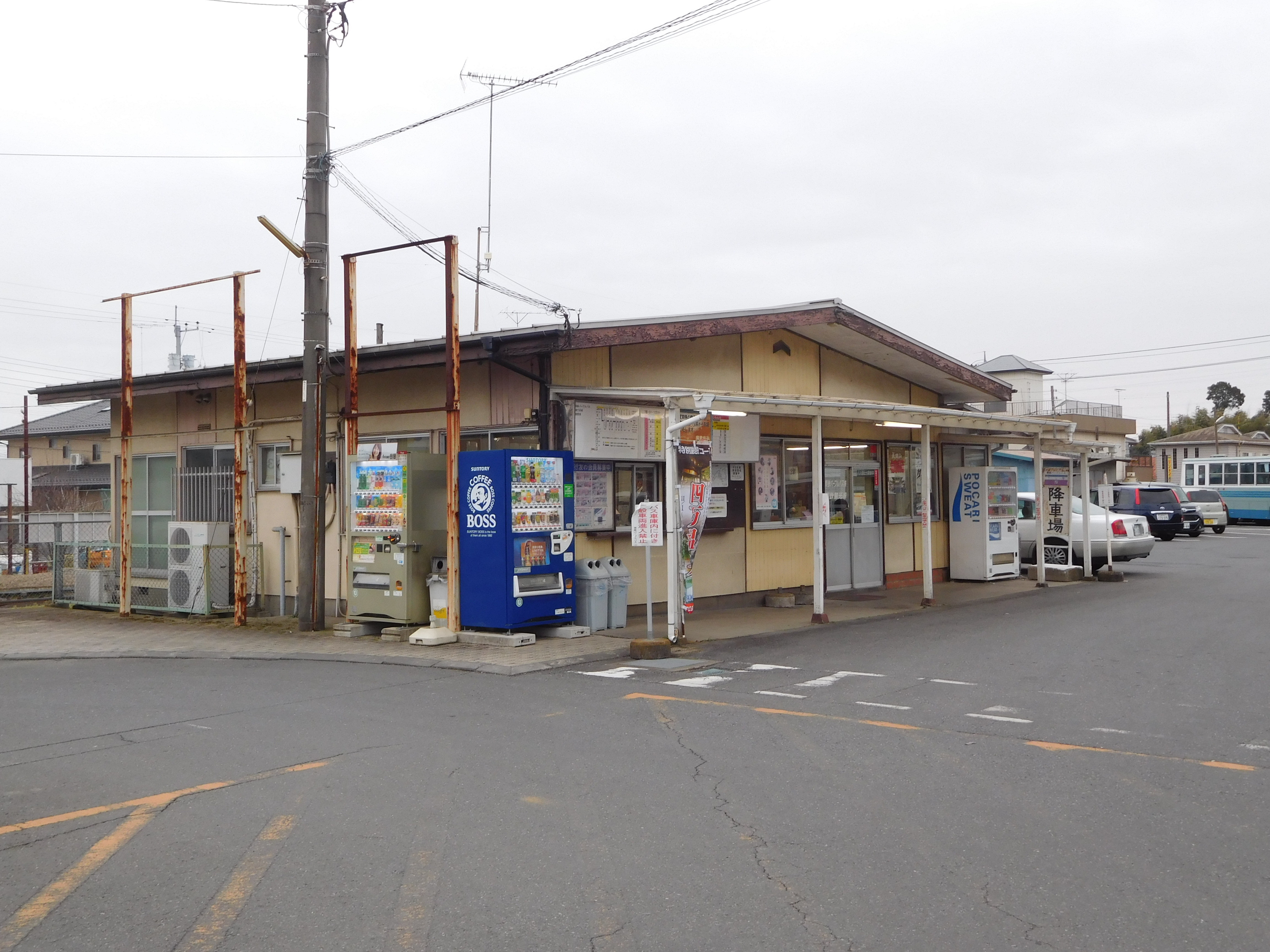 This is Kantetsu Purple Bus Shimotsuma Office in Shimotsuma, Ibaraki, Japan.